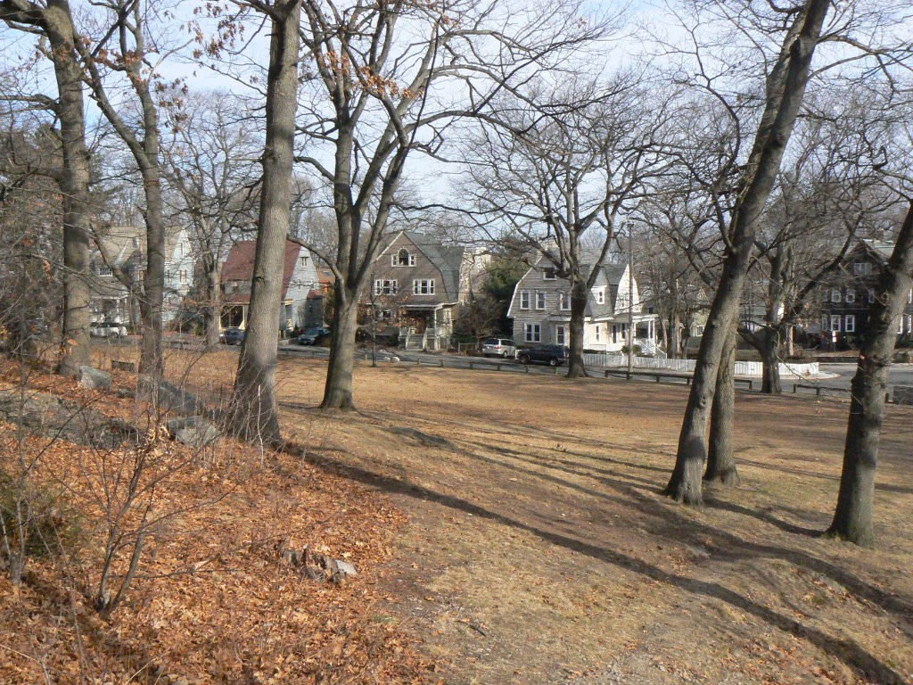 A view from the park encompassing the eponymous hill of the Savin Hill neighborhood of Boston, Massachusetts.